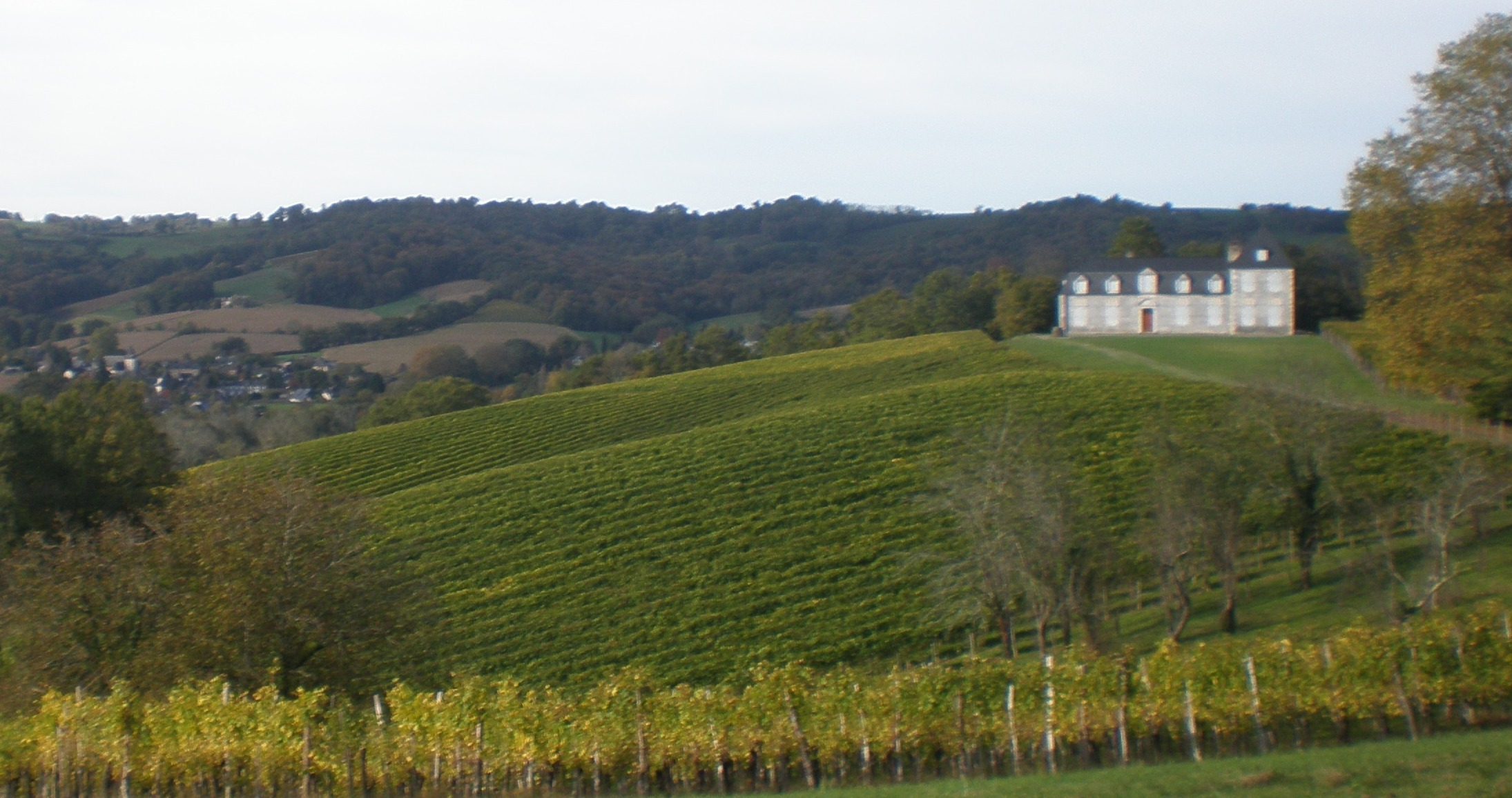 Château de Navailles à Aubertin dominant le vignoble et le village de Lacommande